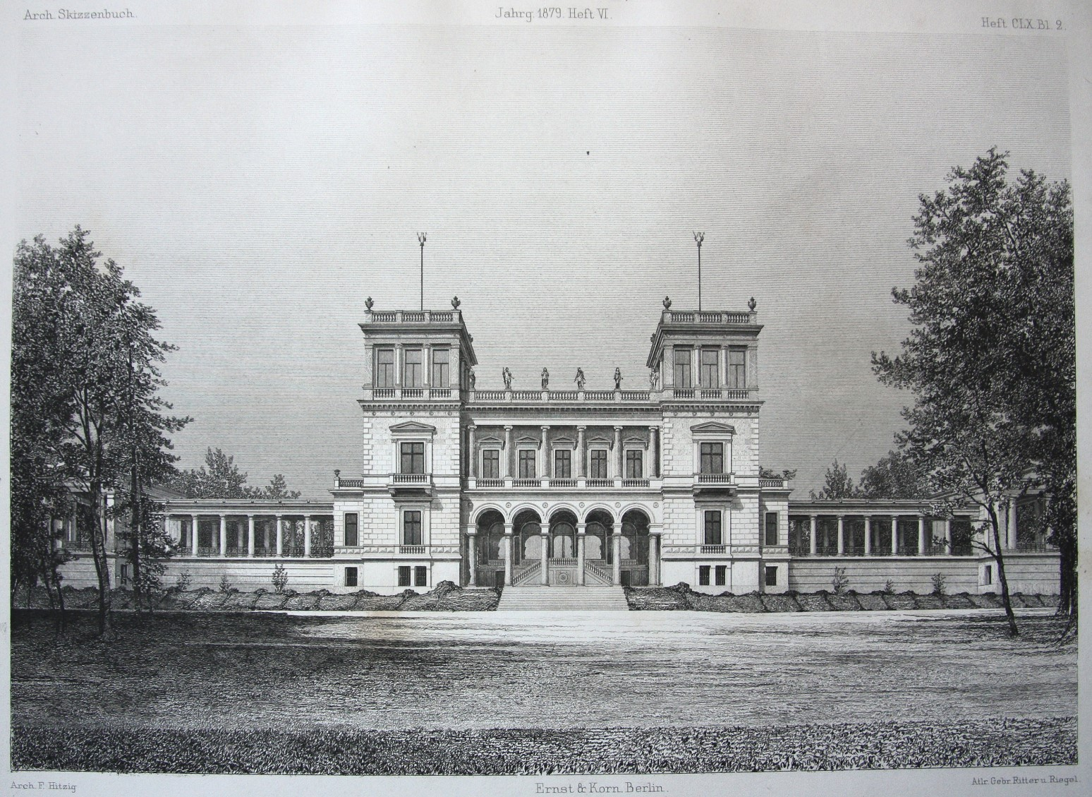 Rügen - Schloss Dwasieden, view